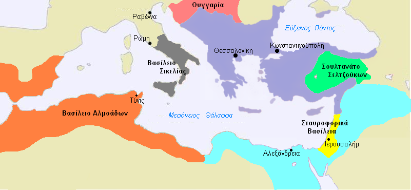 A map of the Byzantine Empire, c.1180AD